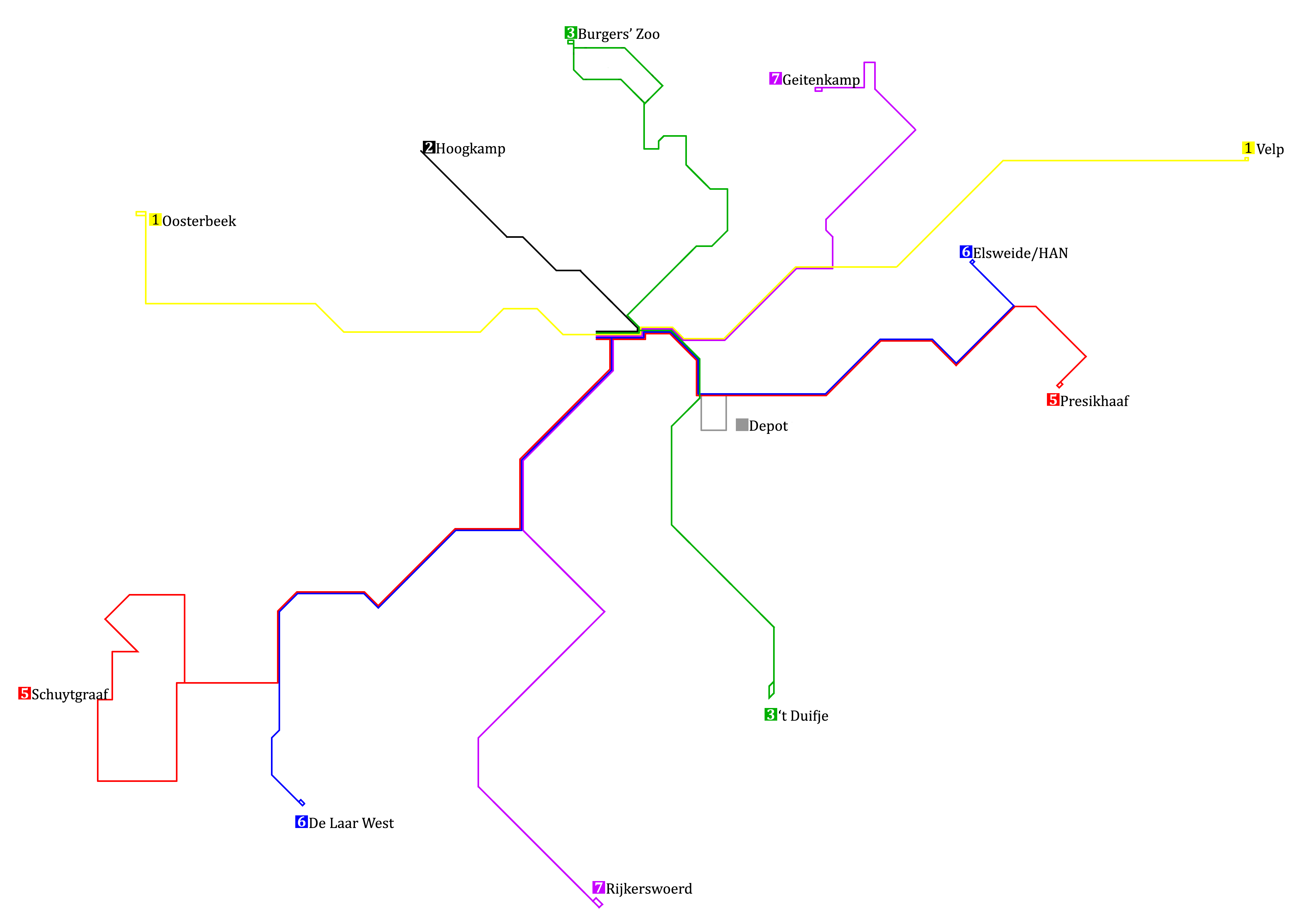 Map of the Trolleybus-network in Arnhem (NL) from December 9th 2012 to December 14th 2014.